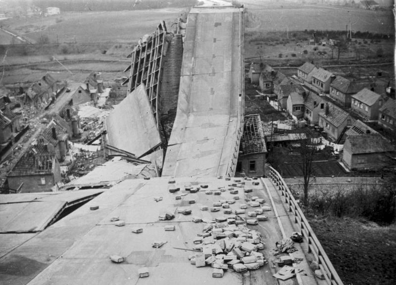 Title: Kaiserslautern, zerstörte Lautertalbrücke Extra information: Kaiserslautern.- zerstörte Lautertalbrücke um 1945 Factual corrections and alternative descriptions are encouraged separately from the original description. Additionally errors can be reported at this page to inform the Bundesarchiv. Original historic description: Germans Wreck Hitler Autobahn The Germans wrecked one of the bridges of the Hitler Autobahn to prevent it being used by the U.S. Seventh Army operating in the sector. PWO-OWI Staff Photo by Fred Paas Distributed by U.S. Information Service